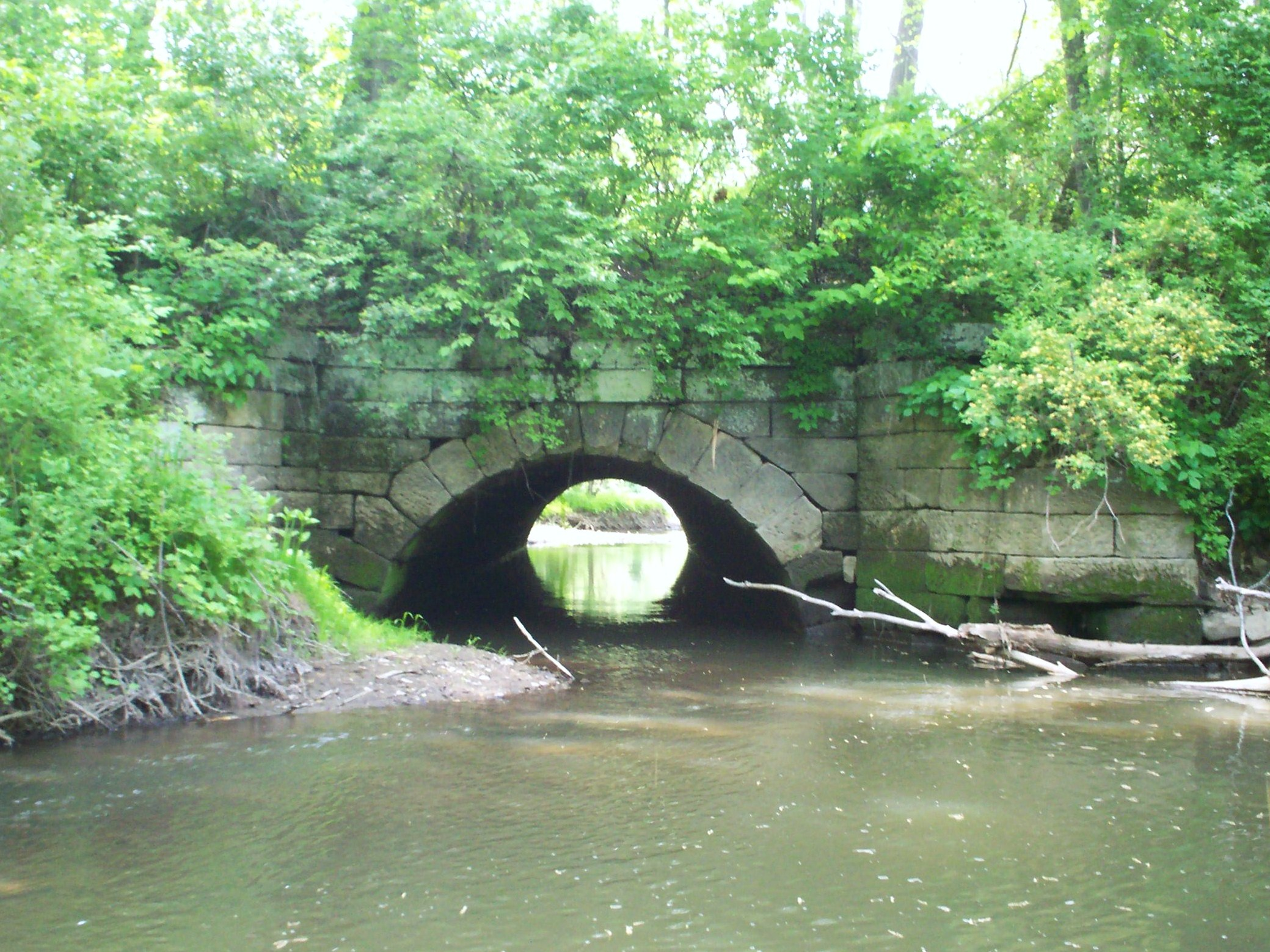 Photo of an aqueduct for the Pennsylvania and Ohio Canal now part of the Portage Hike and Bike Trail in Kent, Ohio over Plum Creek.